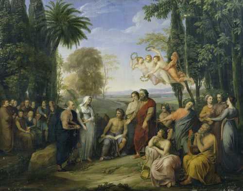 Klopstock in Elysium